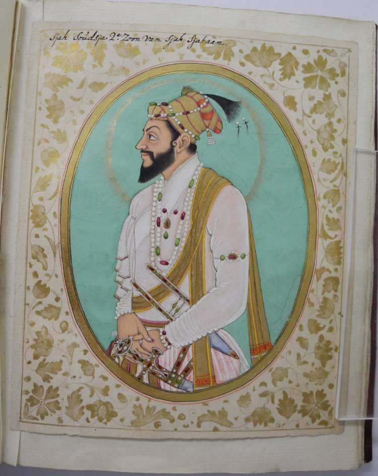 Album leaf. Portrait. Sháh Shujáʿ + inscription. On paper.